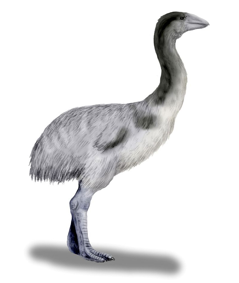 Genyornis newtoni, a thunderbird from the pleistocene of Australia, pencil drawing, digital coloring